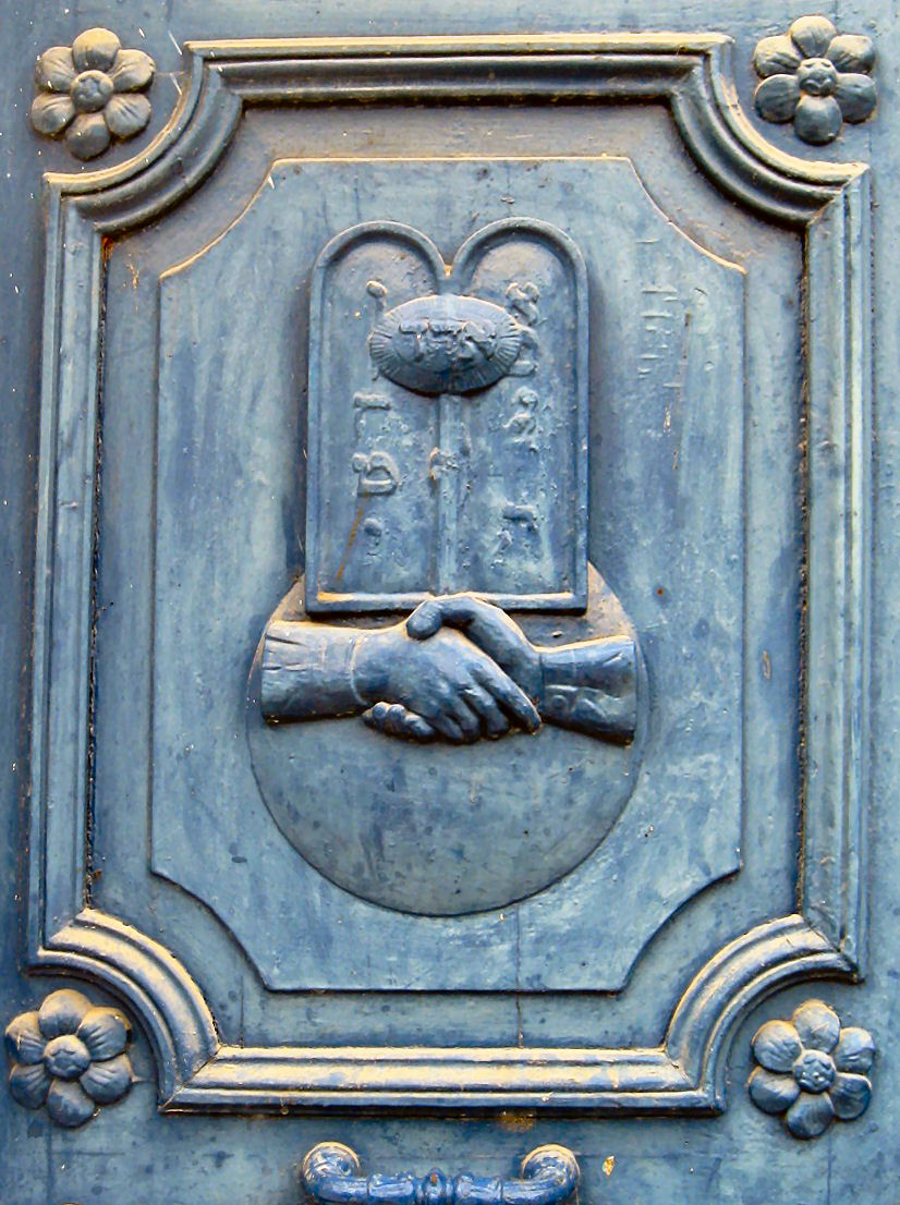 'Mikveh Israel' school of agriculture, Holon, Israel